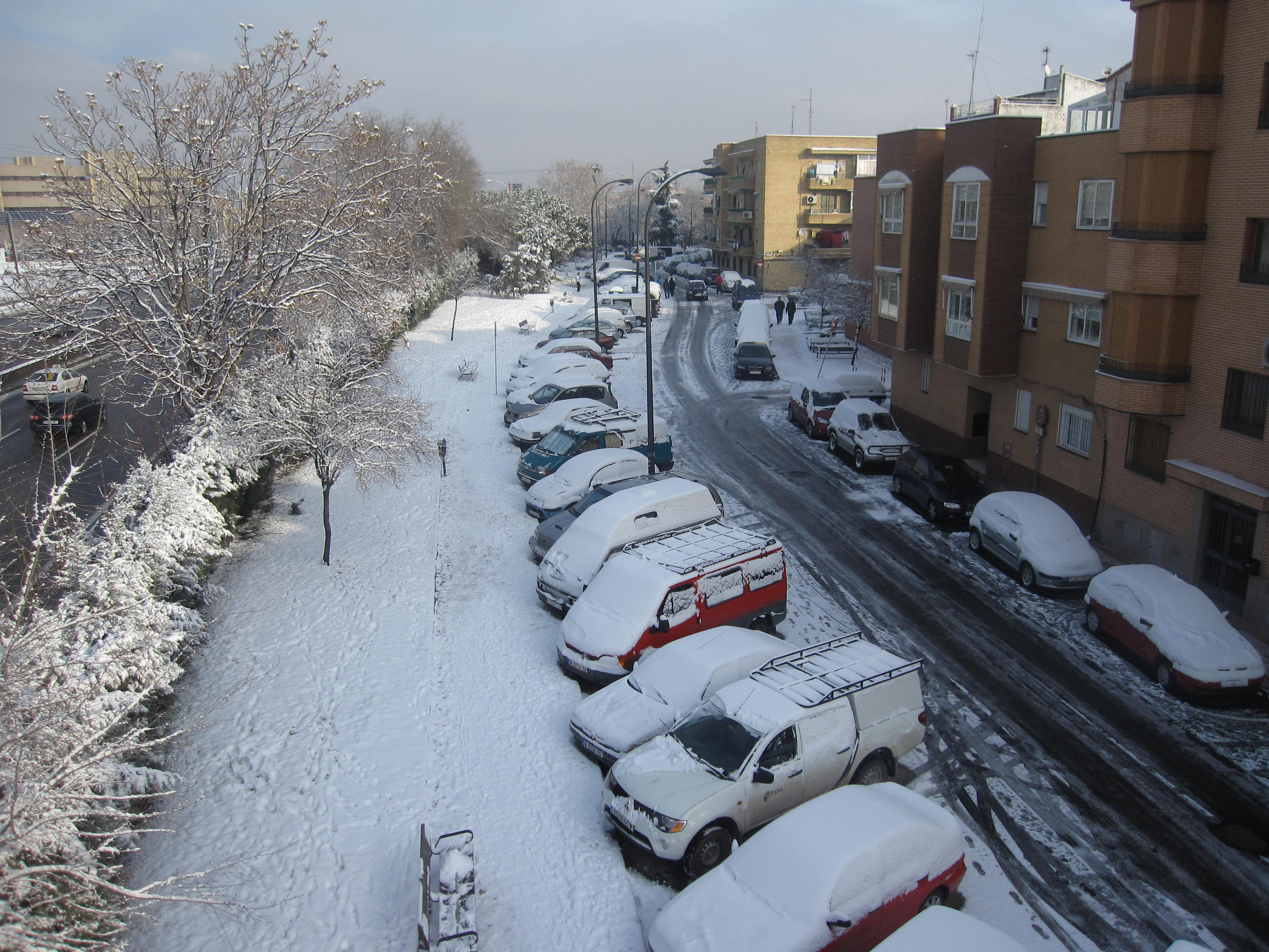 La Alhóndiga (Getafe), Community of Madrid, Spain.